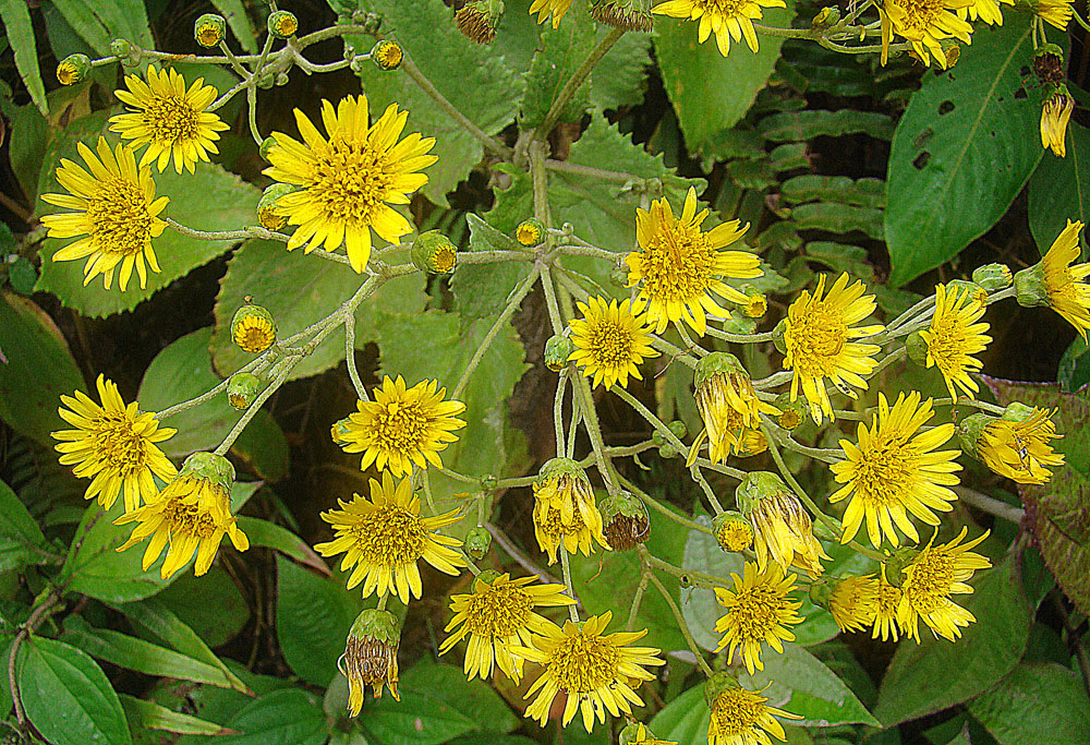 Munnozia wilburii near Monteverde, Costa Rica